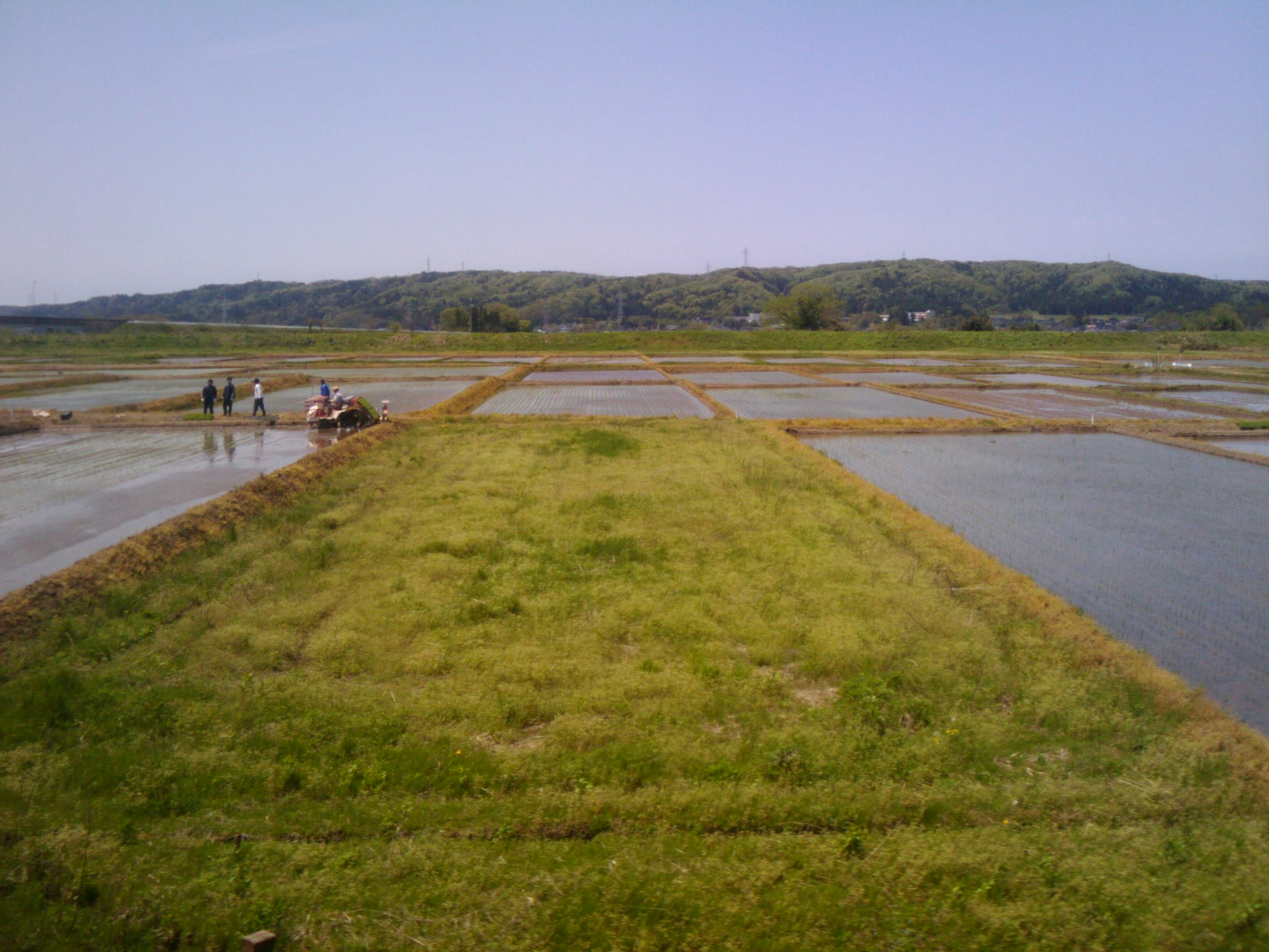 Mount Bijo (Nakanoto, Ishikawa, Japan)